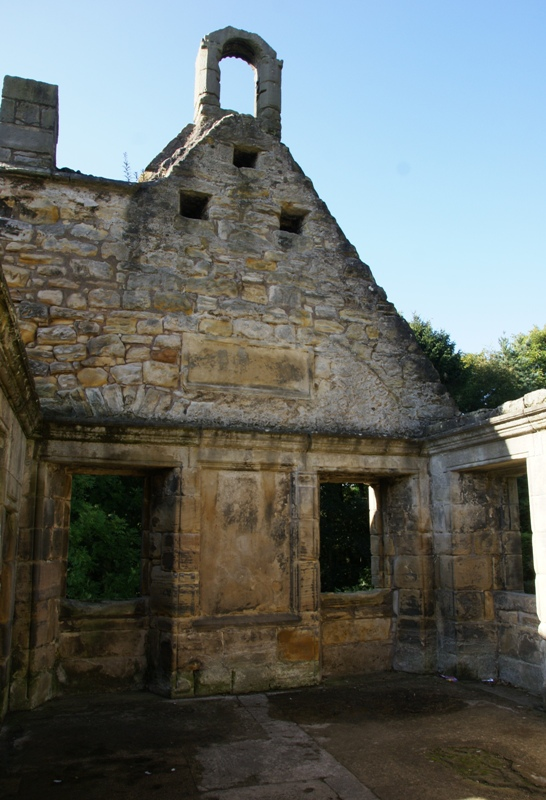 St Bridget's Kirk, Dalgety, Fife, Scotland. Interior of the Dunfermline Aisle.